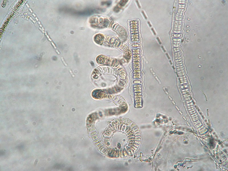 This work is free and may be used by anyone for any purpose. If you wish to use this content, you do not need to request permission as long as you follow any licensing requirements mentioned on this page.